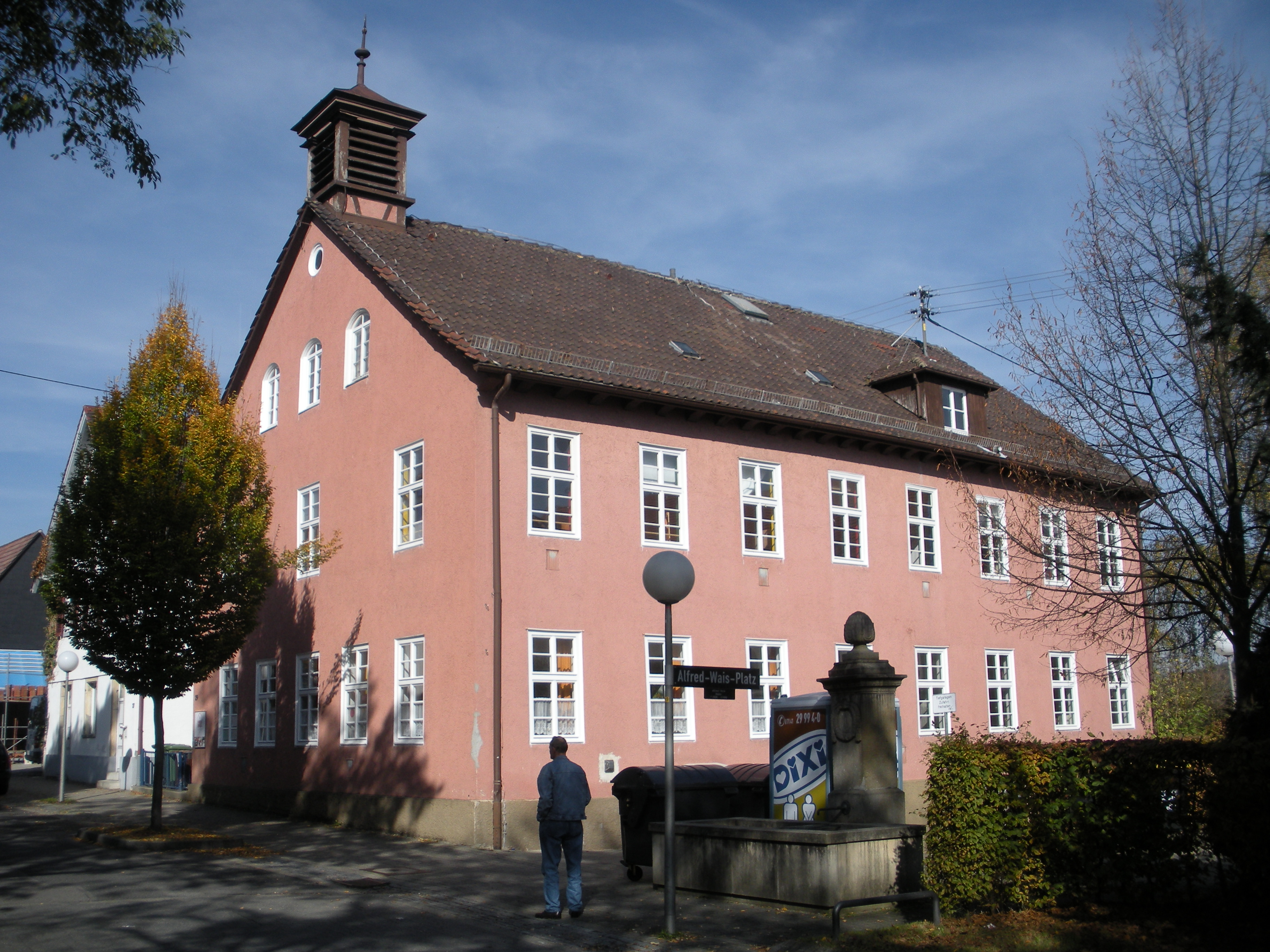 Old School in Stuttgart-Birkach